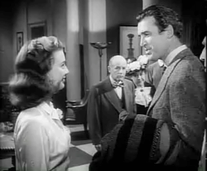 Cropped screenshot of James Stewart from the trailer for the film Harvey